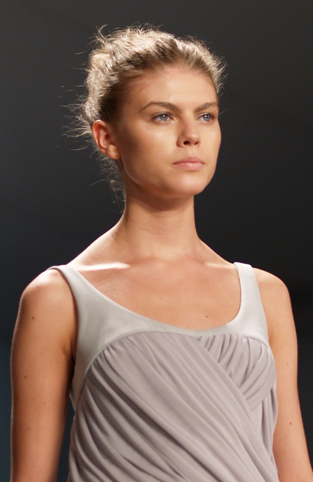 Model Maryna Linchuk